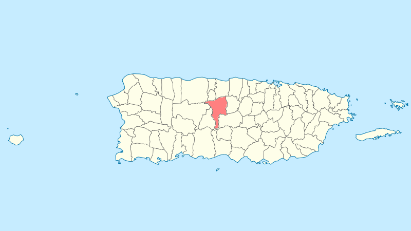 Municipal locator of Puerto Rico